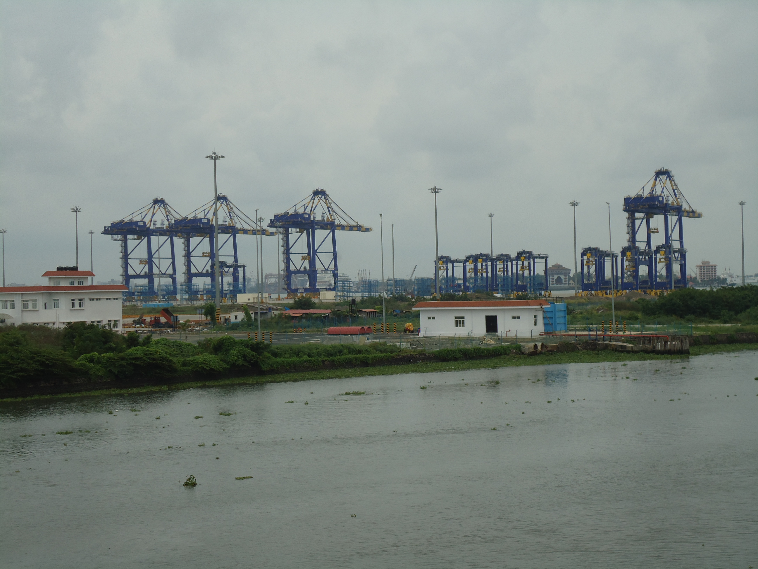 Vallarpadam Container Terminal